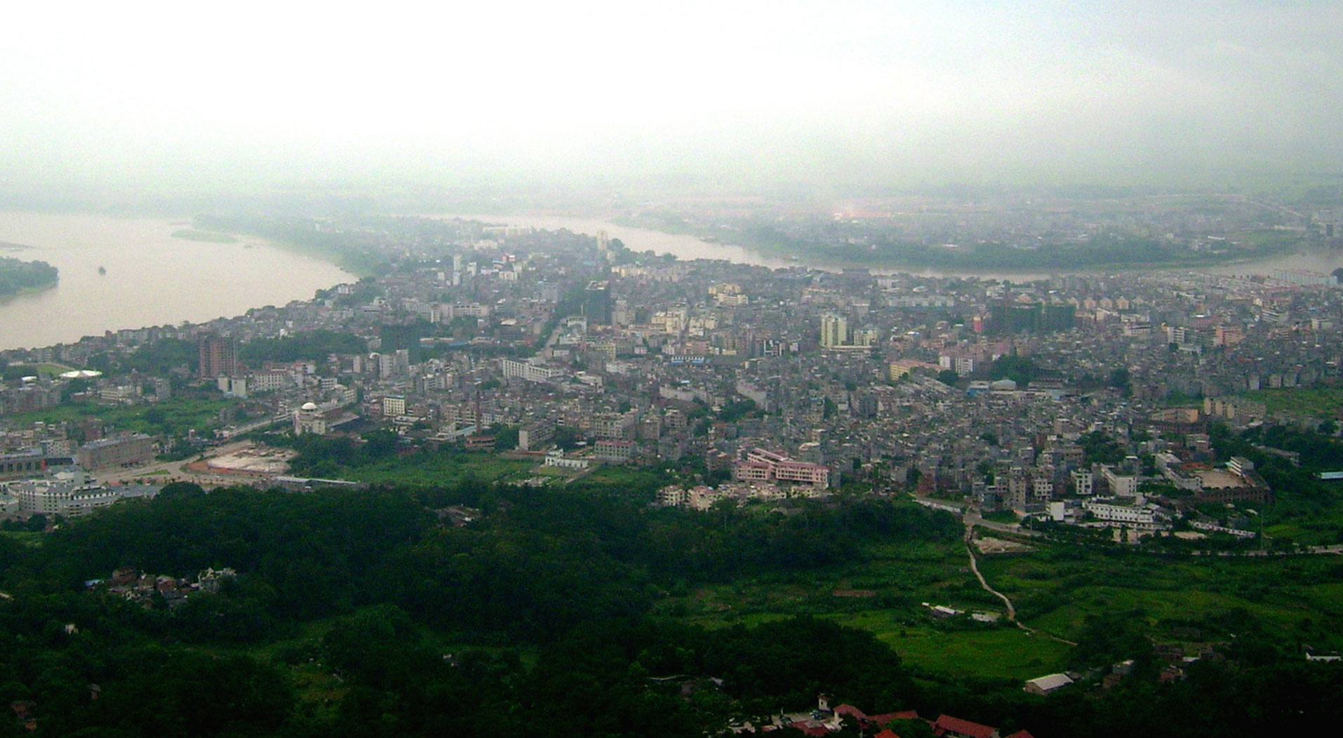 A Bird's-eye view of Guiping, Guangxi, from Mt. Xishan